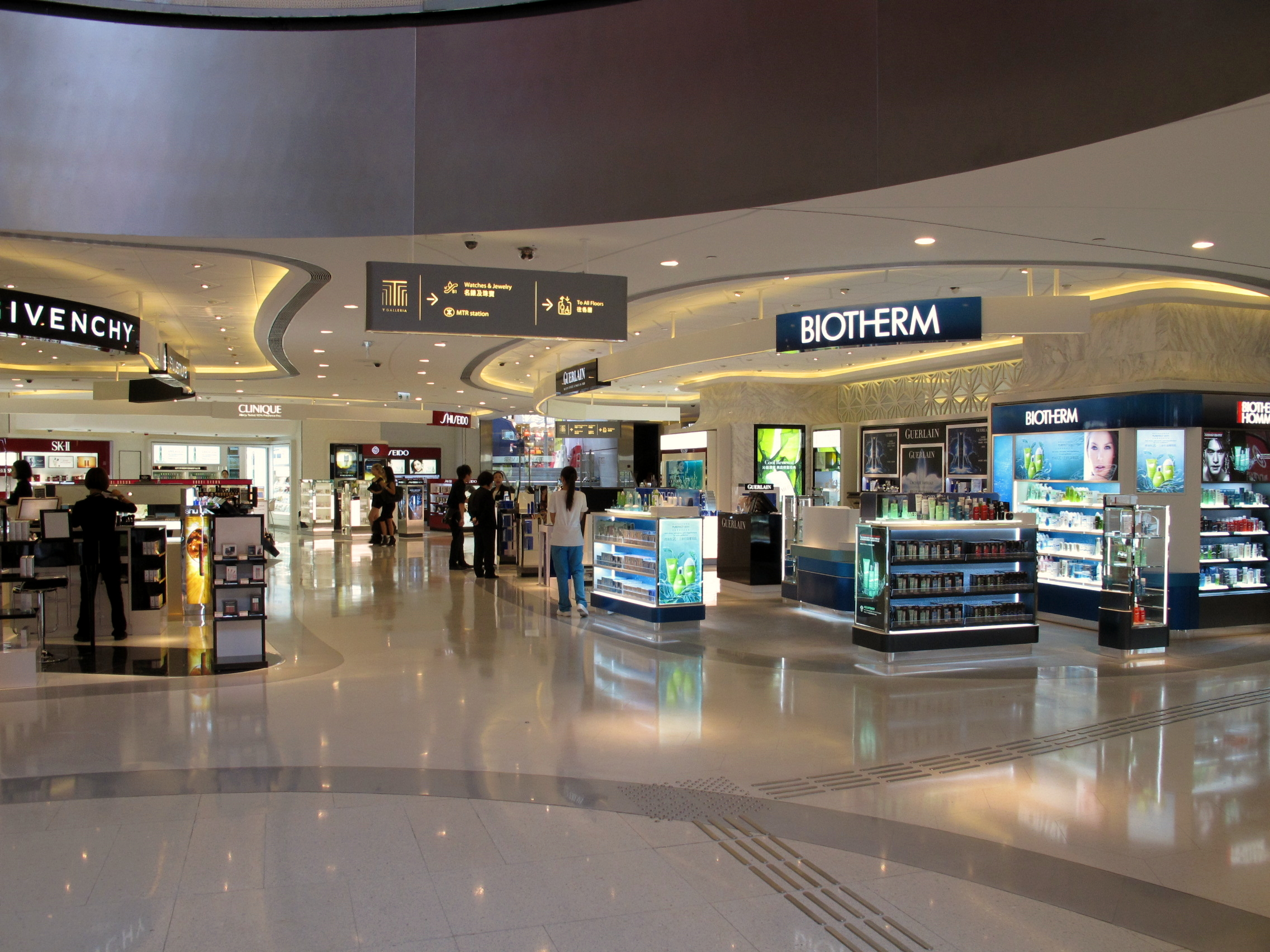 Hysan Place T Galleria